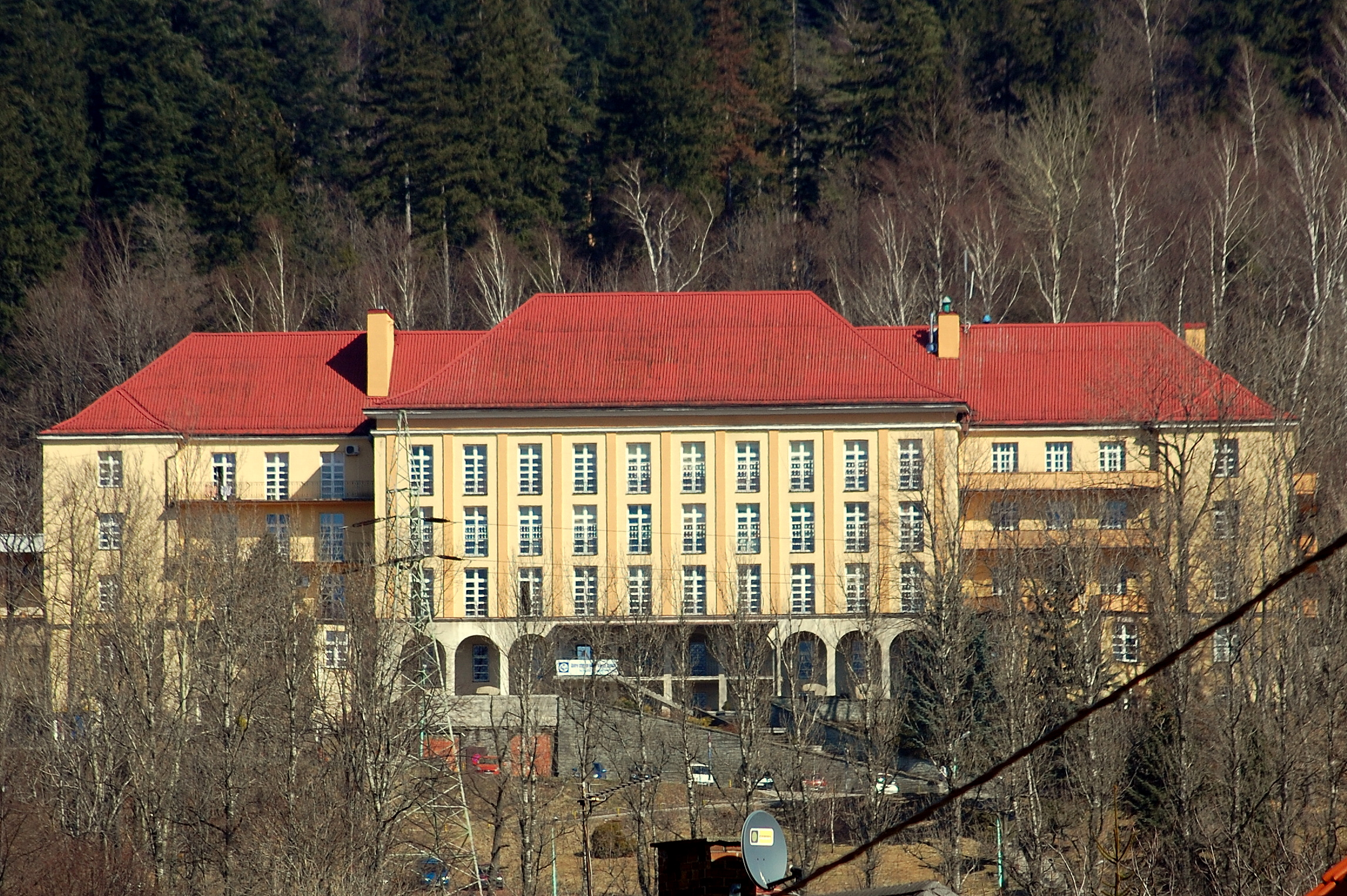 Hospital in Wilkowice (Poland) Česky: Železniční nemocnice ve Wilkowicích, Polsko